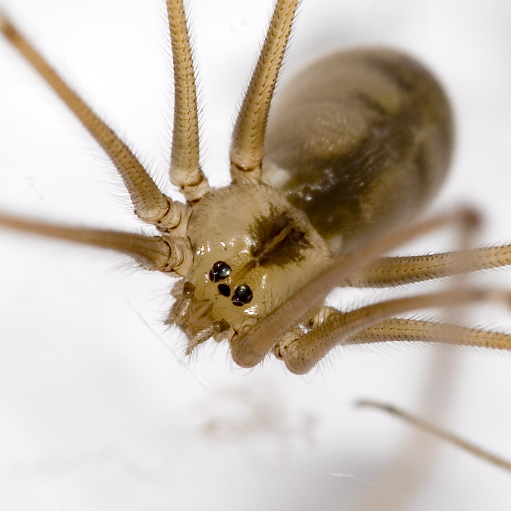 Pholcus phalangioides closeup; Many thanks to user:Brummfuss and user:DocTaxon for determination!